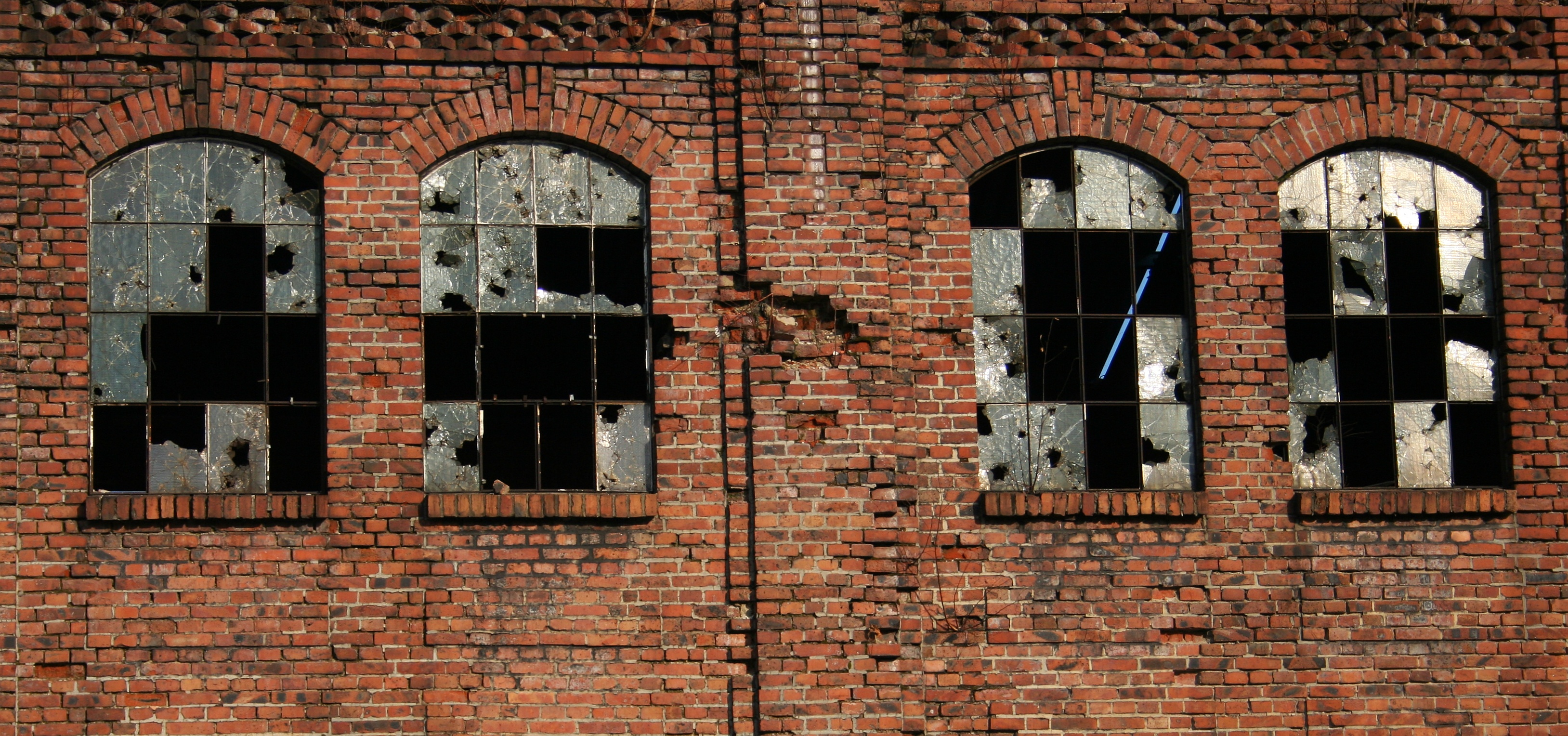 Broken Windows in Janów-Nikiszowiec, Katowice, Poland